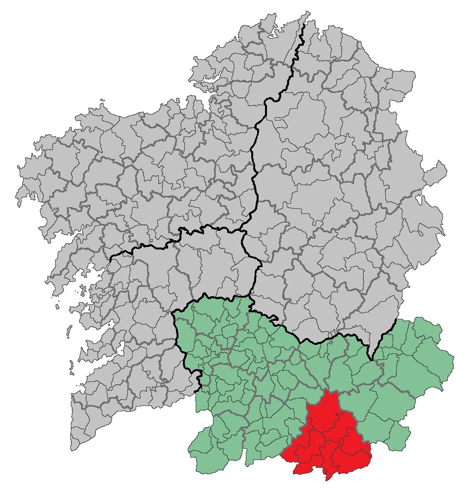 Region of Galicia (Spain)Based in: Image:Location of Betanzos.png Source: Designed by Leoplus. Original picture, designed by Caiser over a work made by Alyssalover.